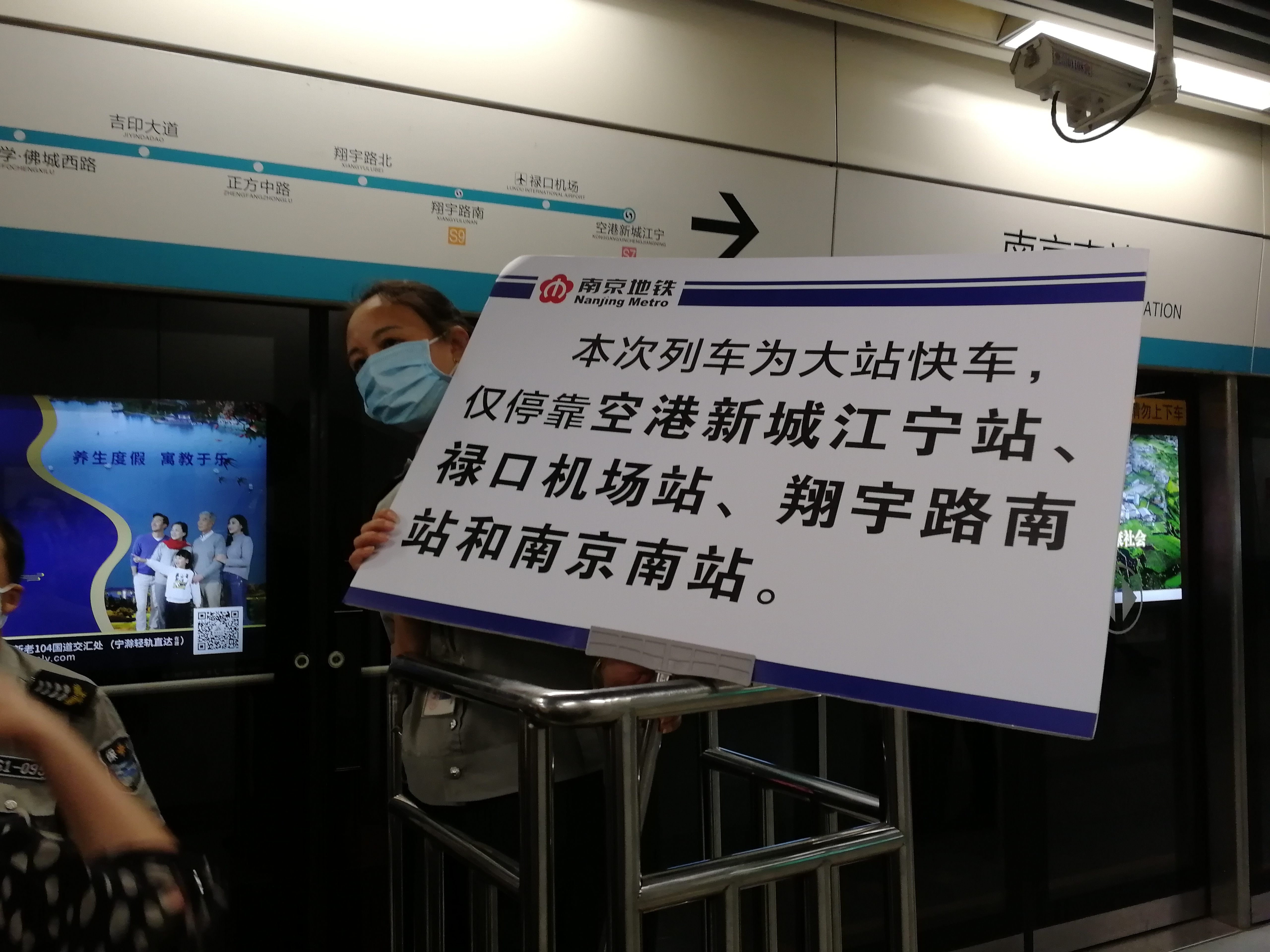 Security guard of Nanjing Metro guiding passengers take Line S1 experss train at Nanjing South Railway Station.